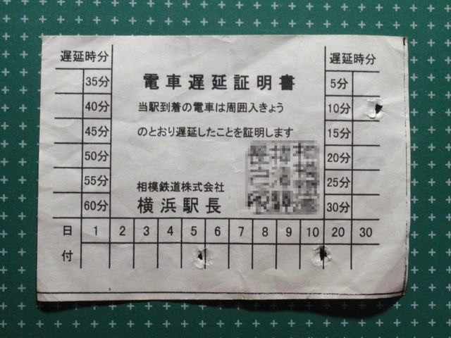 Example of a Certificate of Lateness issued by a Japanese train company